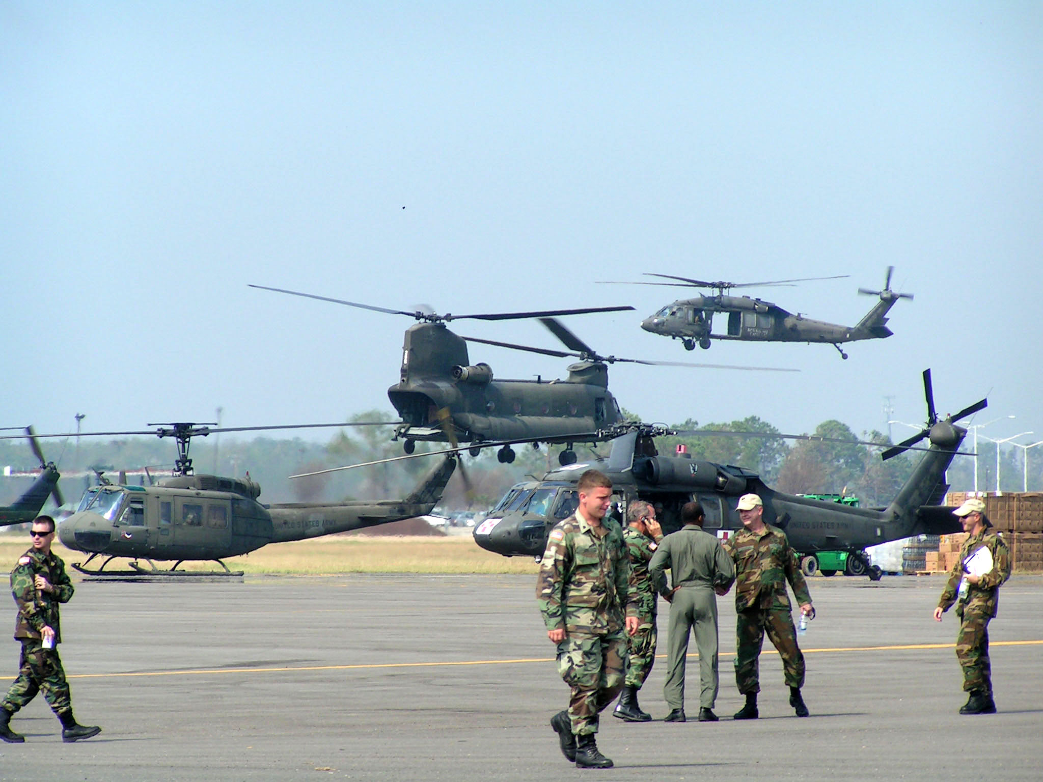 United States Army and Air Force national guard units training at Gulfport Combat Readiness Training Center - Mississippi